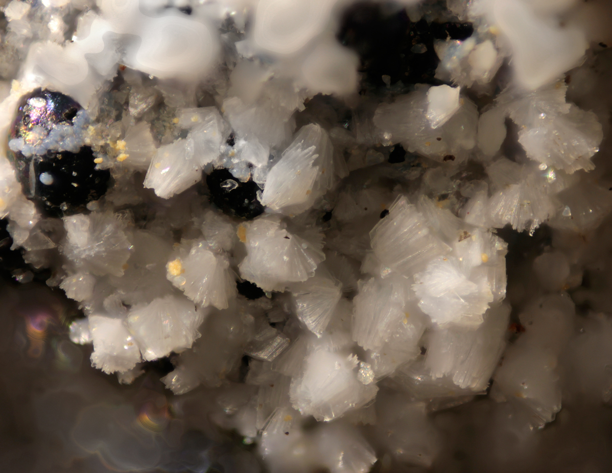 Locality: Fumade, Tarn, Midi-Pyrénées, France Size: 2.1 × 1.8 × 1.6 cm Description: Afmite is a rare aluminium phosphate named after of my beloved Association Française de Microminéralogie (AFM, IMA 2005-025a), but approved in 2010. In this sample we can enjoy rich groups of "open book" white (they are transparent) aggregates of tabular crystals. From the Type Locality and one of the only three localities known worldwide.